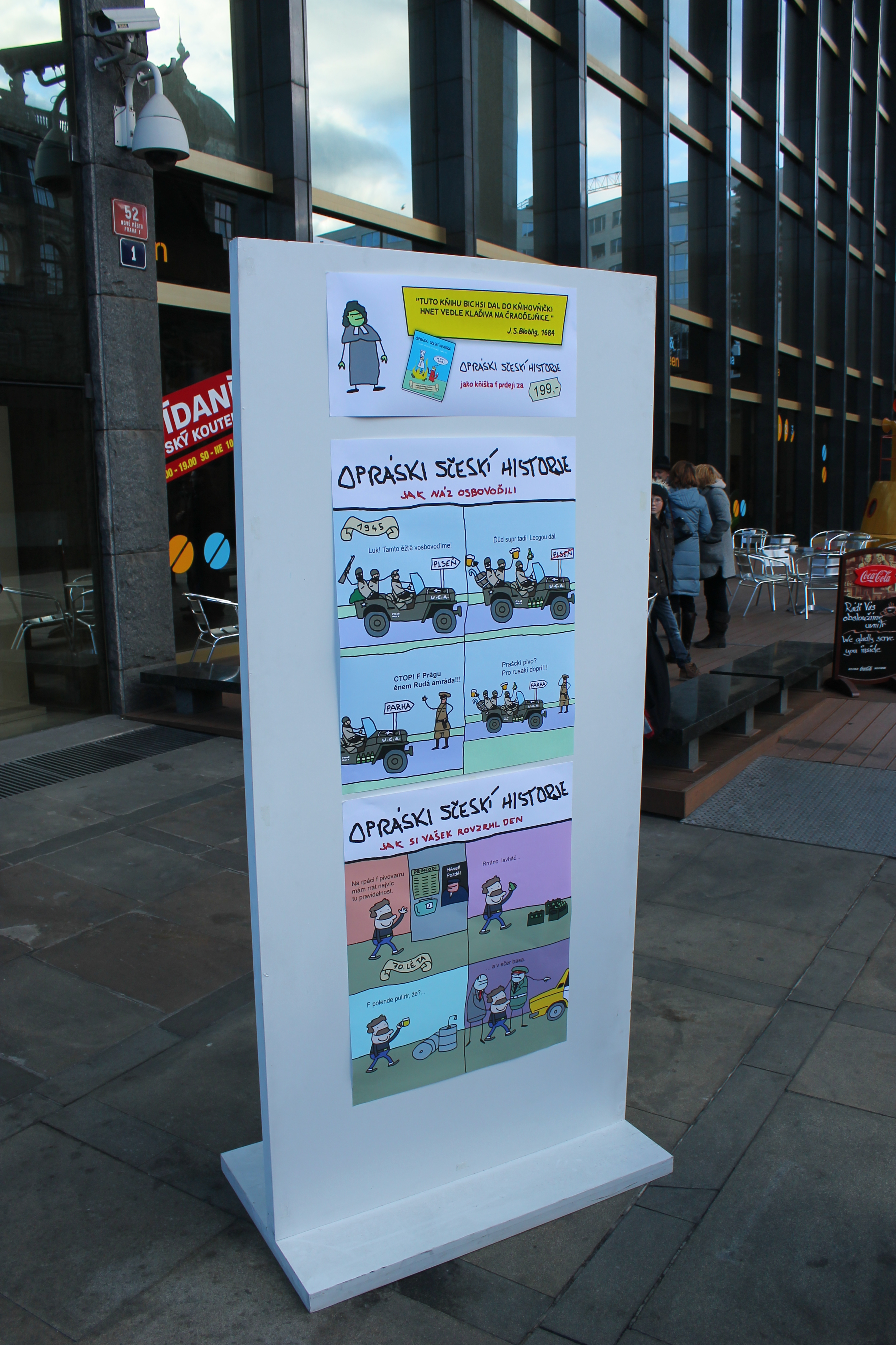 A poster with cartoon Opráski sčeskí histoje (The Pictures of the Czech History – however the name is misspelled – like The Pitcures ofthe Checz hystory) during its launch, Prague, Czech republic.